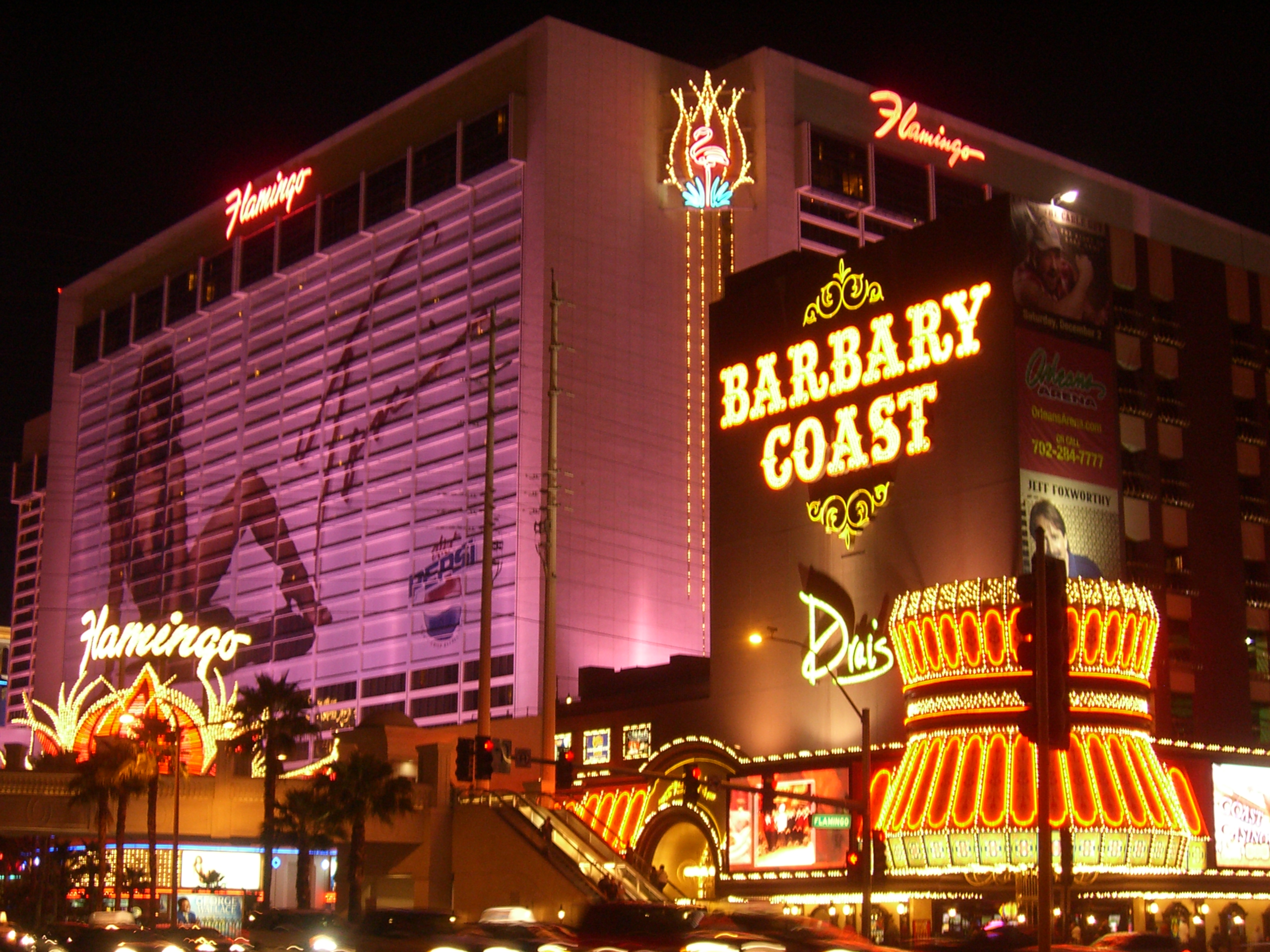 Las Vegas Strip, Nevada, USA